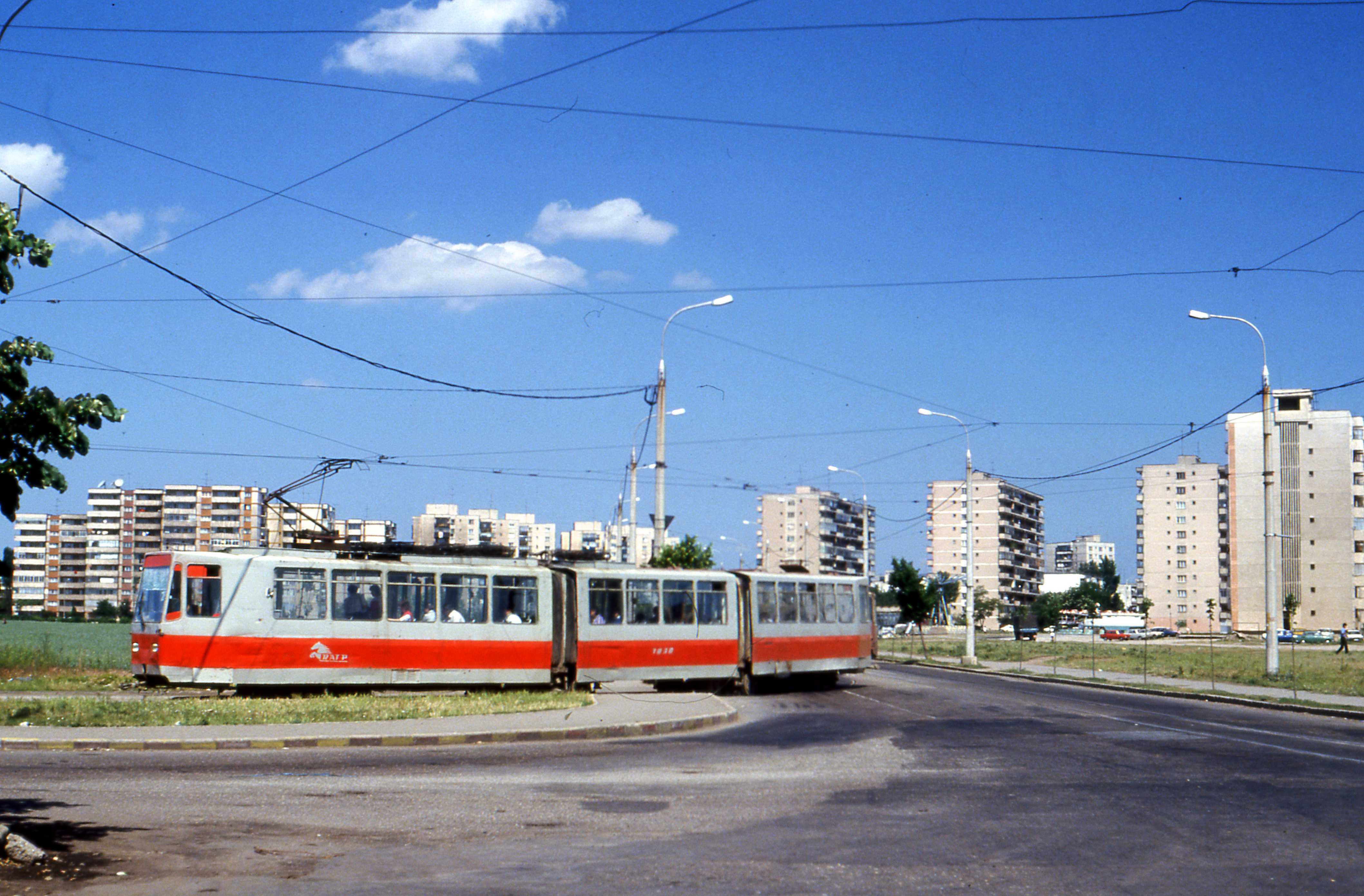 It was a hot day in Poiesti, the centre of oil production in Romania. The railway station was some way west of the town centre. Hardly an old bulding in sight here. Suddenly in the town centre, everything went quiet. Scores of police sprung into action, traffic stopped. Silence. Then the expected motorcade swept round the corner and along the modern boulevard. Scores and scores of motorcycle outriders, sirens, and black cars. Very former situation. Perhpas the president. Perhaps a junior minister, the sort who is always unavailable for television or radio interviews in Britain when they don't want to discuss unpalatable measures. A written statement has just been sent..... Still, a very attractive livery, with the usual Romania stencilling of fleetname. Very former situation. I liked Romania, if not the cuisine.